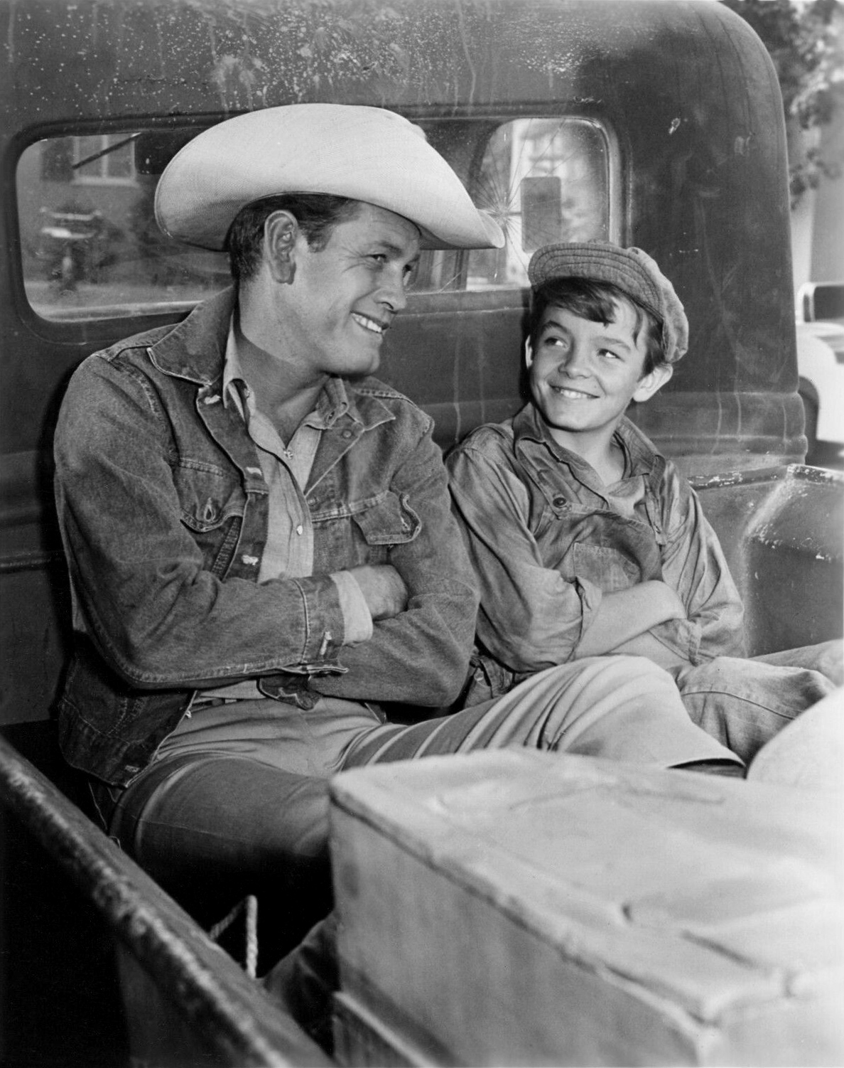 Publicity photo of Earl Holliman and Roger Mobley for The Wide Country